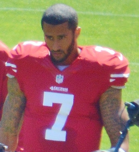 San Francisco 49ers quarterback Colin Kaepernick warms up before the 2013 season opener.